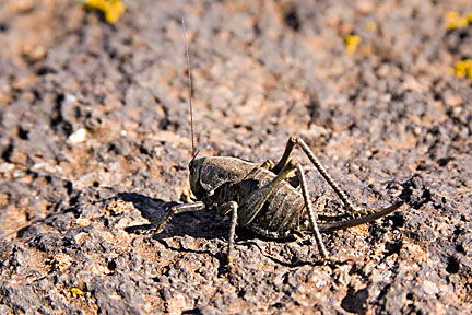 Female - October 2005 - Kolob Rd., UT